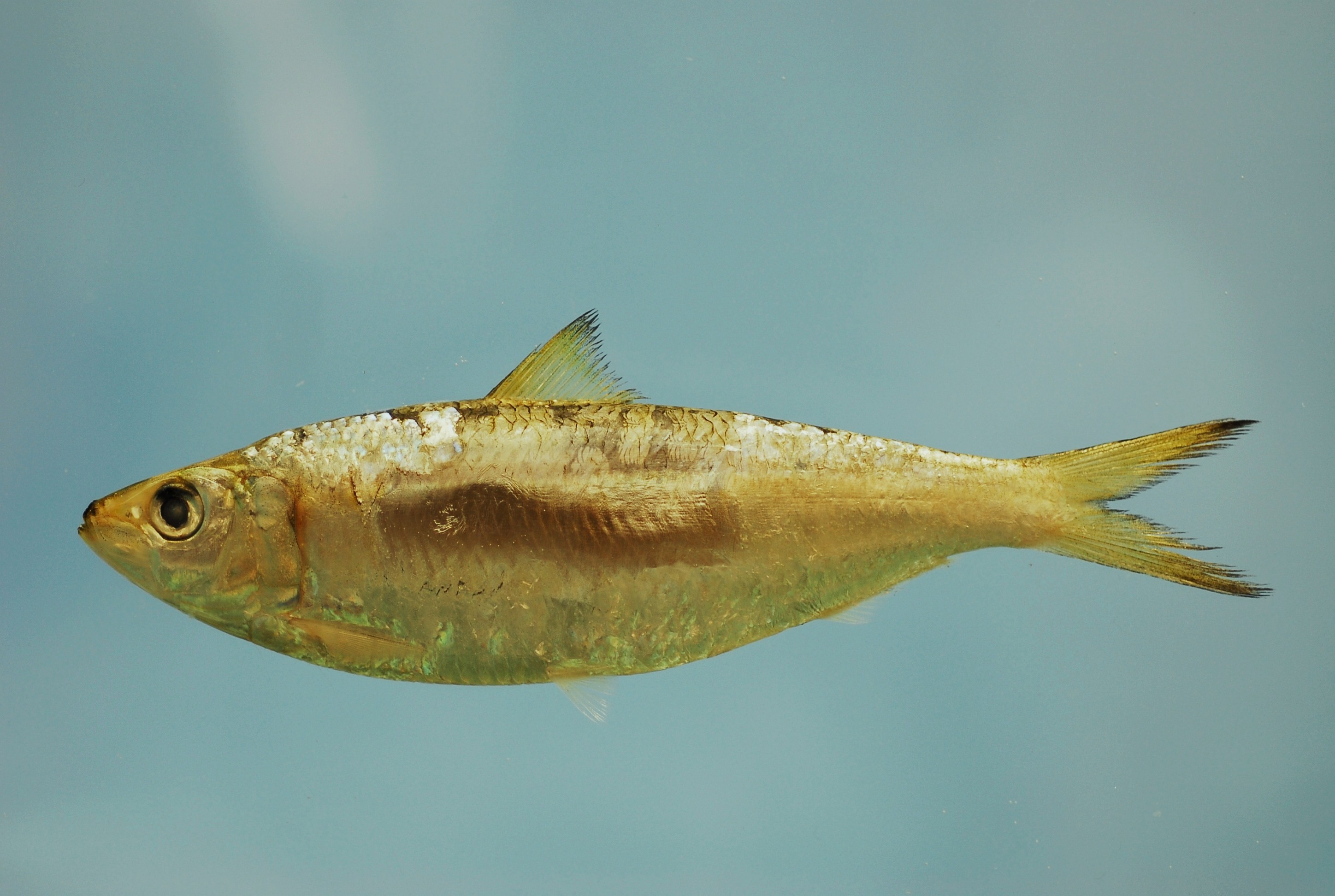 Round sardinella or Spanish sardine (Sardinella aurita). Gulf of Mexico. Credit: SEFSC Pascagoula Laboratory; Collection of Brandi Noble, NOAA/NMFS/SEFSC.